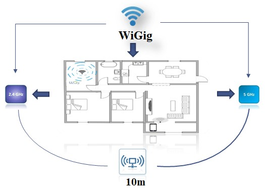 wigig